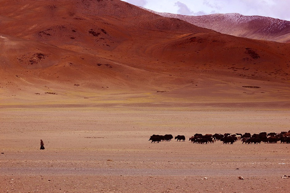 A changpa nomad leading a herd of yak in moorey planes on Manali-Leh Highway,LADAKH.